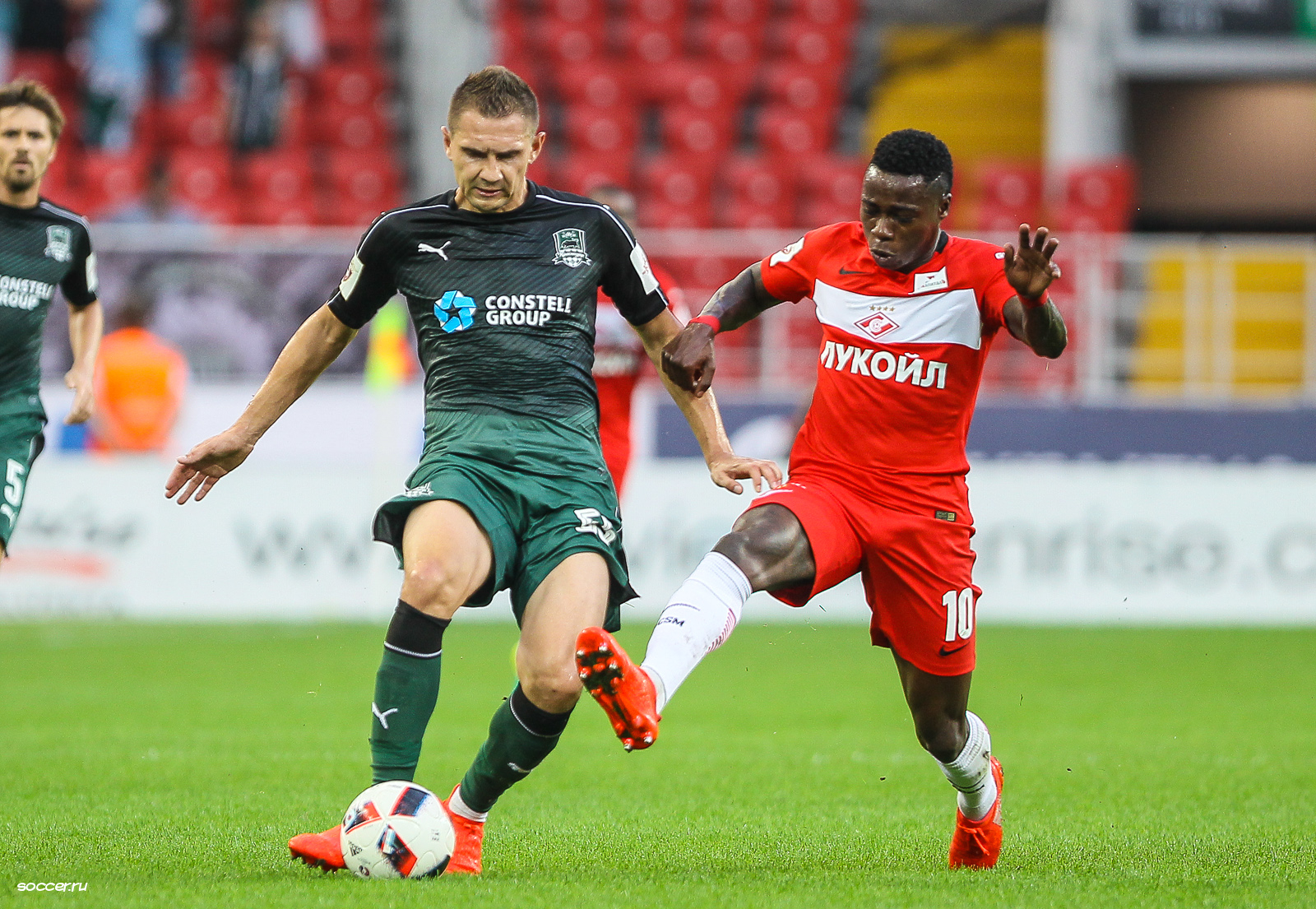 Quincy Promes, Artur Jędrzejczyk